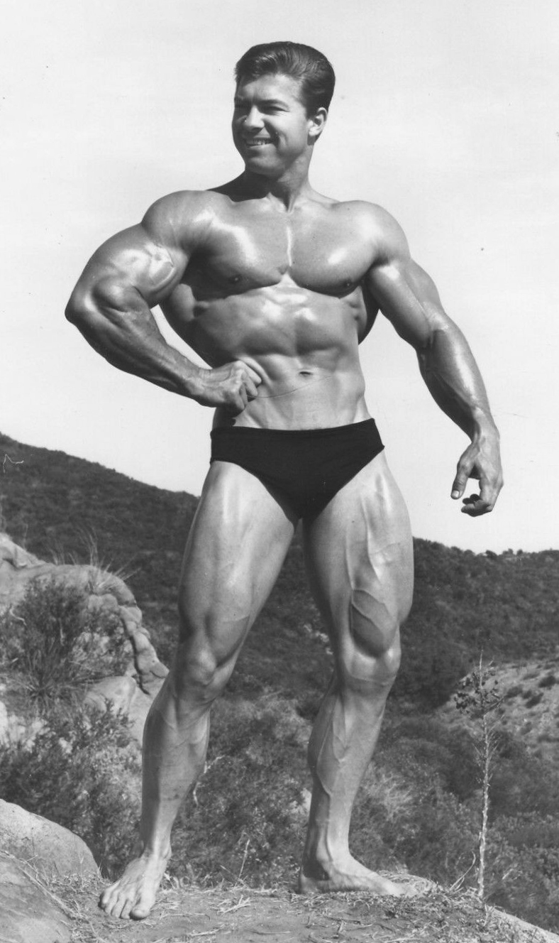 bodybuilder LARRY SCOTT Bodybuilding Photo b+w 1960s Original 8x10 by Gene Mozee